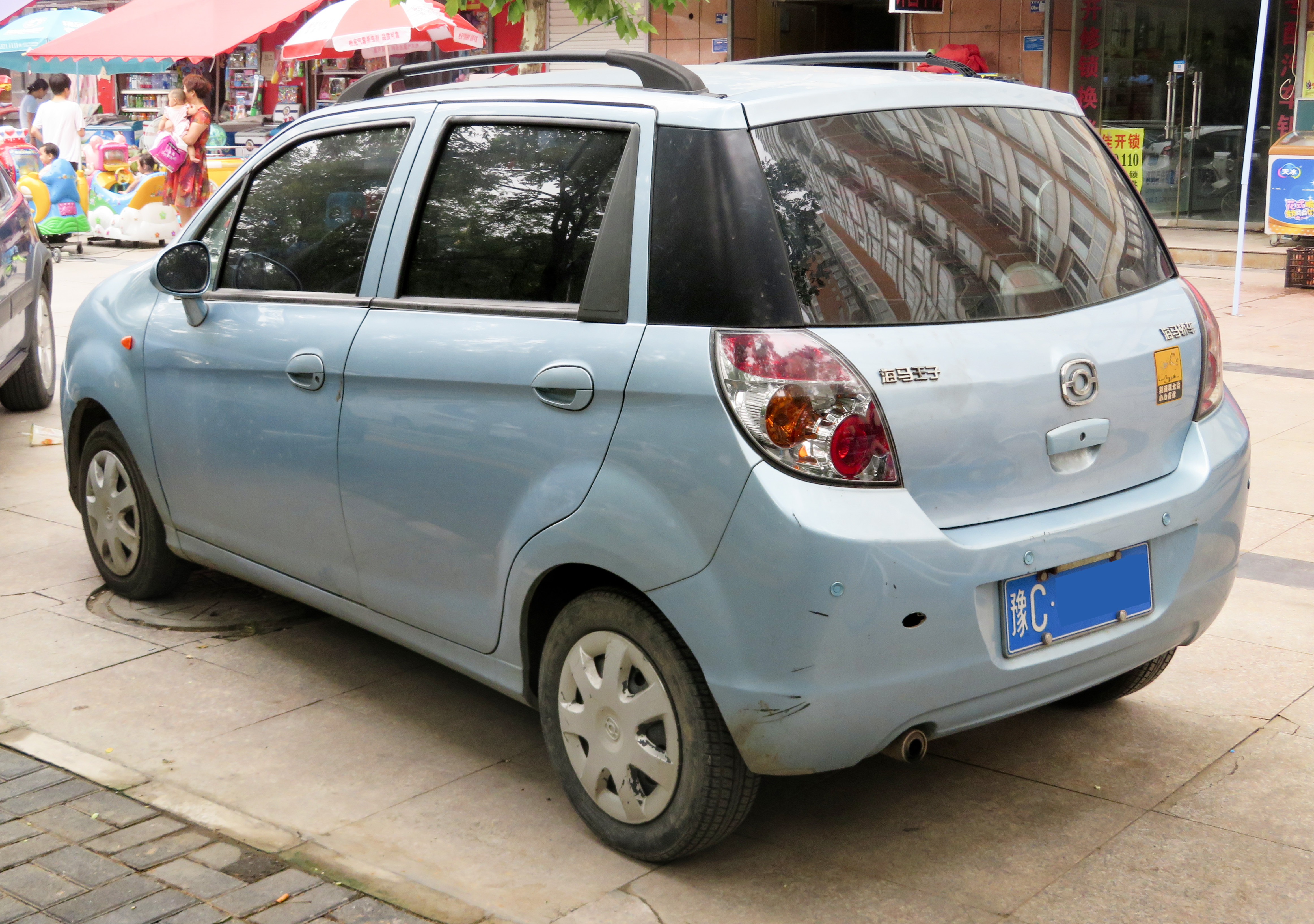 A 2013 Haima Prince photographed in Luolong District, Luoyang, Henan province, China